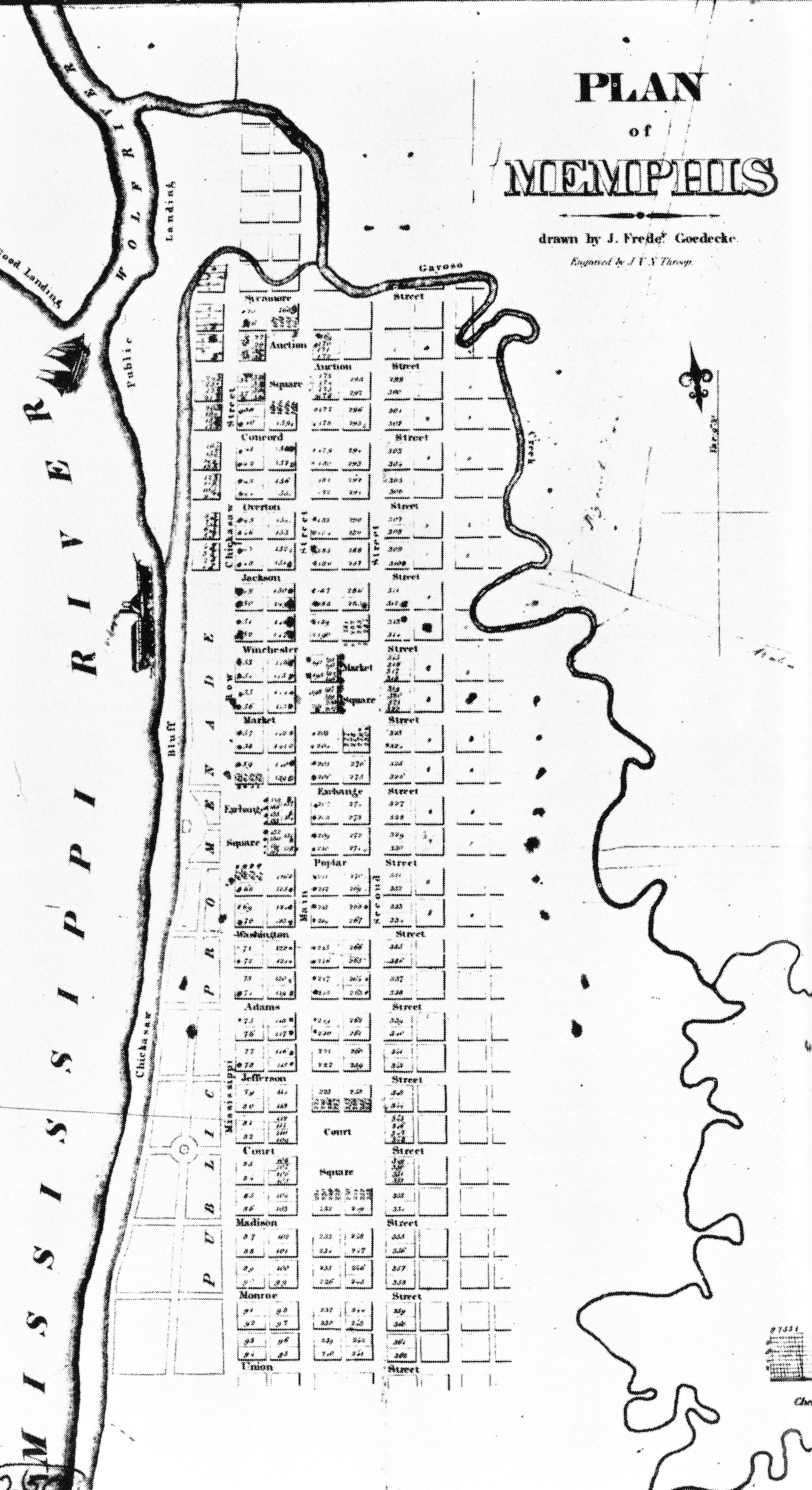 Original 1819 plan of Memphis, believed to be the 1820 engraving made in Baltimore, assigned the date 1819 by the Tennessee Archives, Nashville.